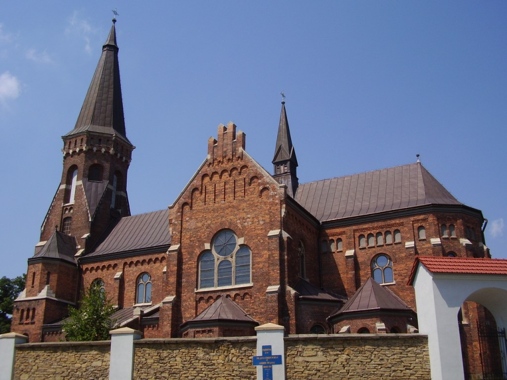 Church of St. John the Baptist in Góra św. Jana